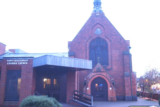 Saint Augustine's Catholic Church - Solihull